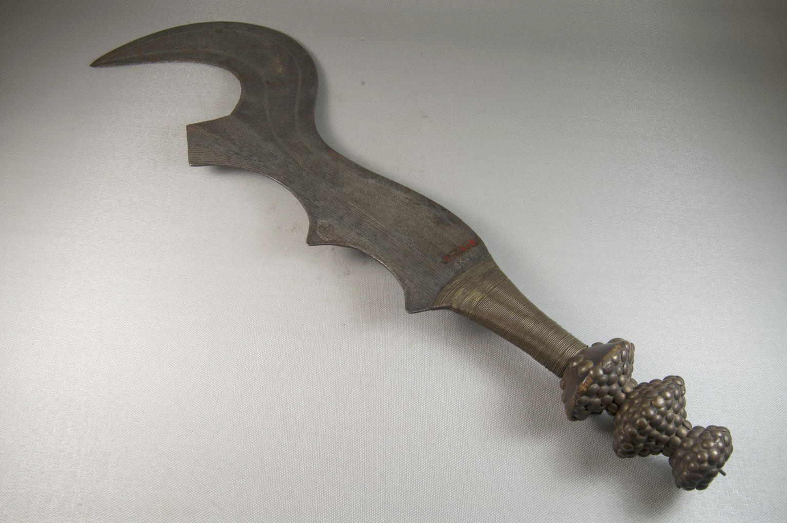 Iron blade, the multi-curved edge ending in a sickle shape. Handle of wood is wrapped in wire, ending in three flattened balls studded with nailheads.